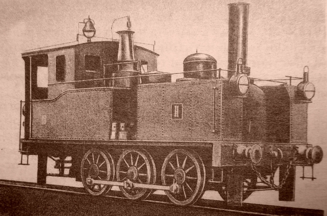 Tank loc of Belgian construction on Russian rail roads